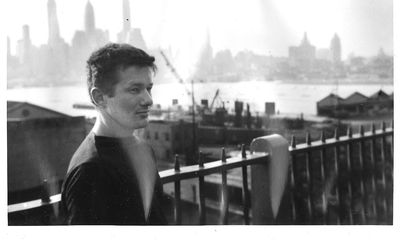 early photograph of Artist Edward Meneeley in New York City